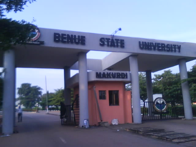 My school, Benue State University Makurdi pic